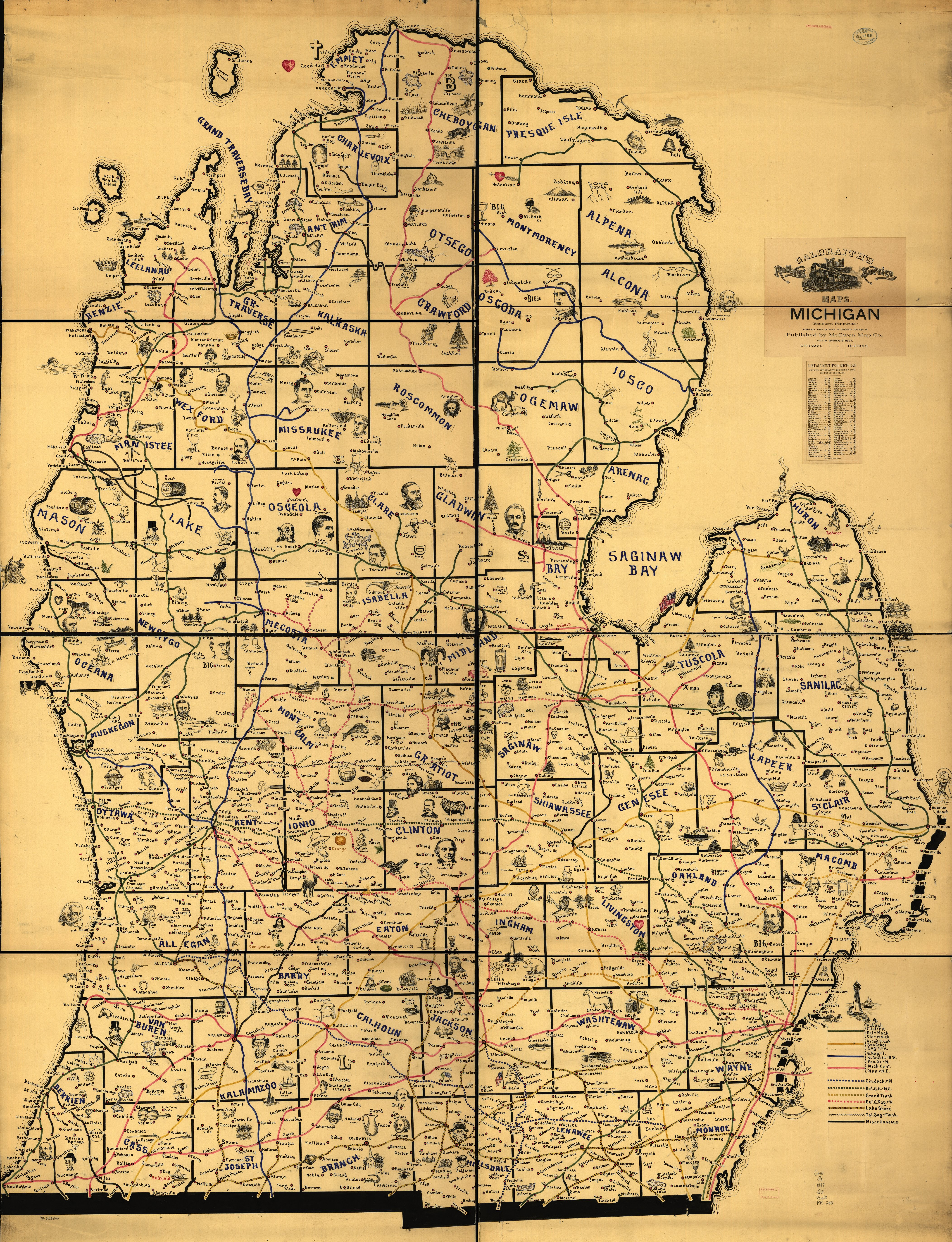 Railroad map of Michigan circa 1897. LOC description: One of eight large-scale pictorial maps of midwestern states showing routes and post offices of the Railway Mail Service. Designed by Chicago railway mail clerk Frank H. Galbraith to help employees of the Railway Mail Service quickly locate counties and post offices. The maps were rented for practicing or prospective workers who numbered over 6,000 and traveled over a million miles a year on the rails sorting mail. A printed title cartouche accompanied by a list of counties for each of the states by McEwen Map Company of Chicago is pasted on the maps.